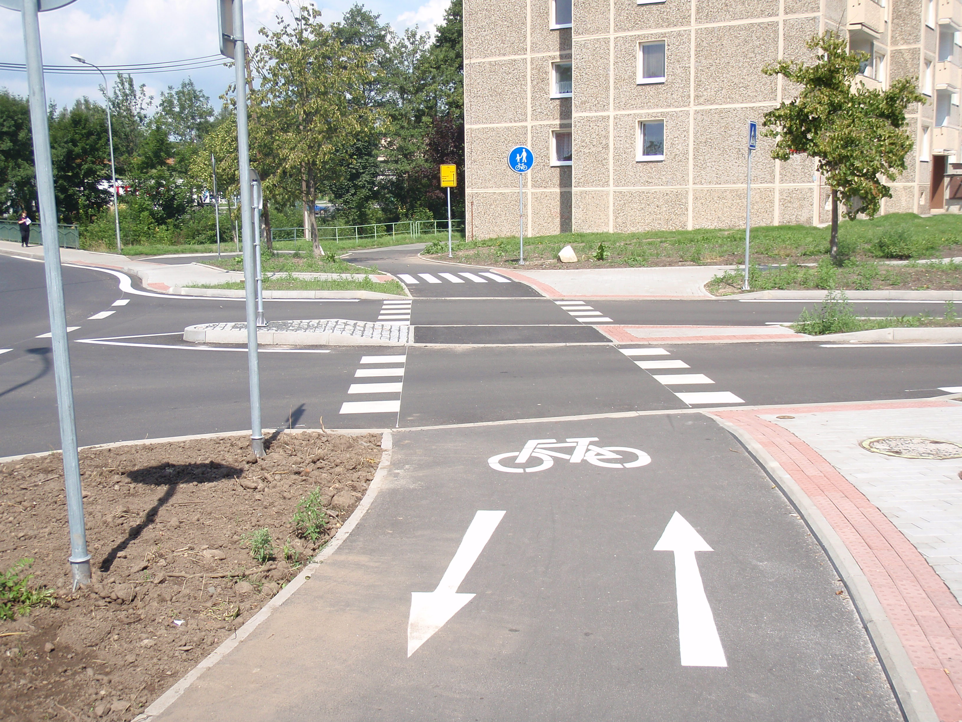 Karlovy Vary, the Czech Republic. Crossing for bikers.